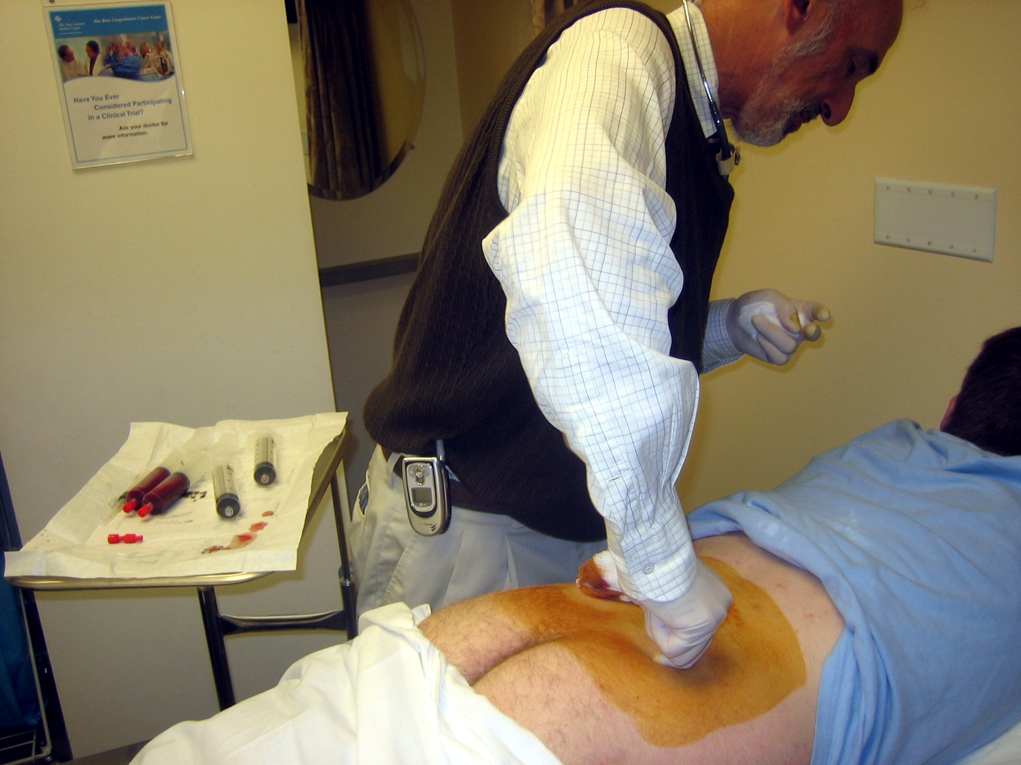 Patient's back desinfected with povidone-iodine during a bone marrow donation